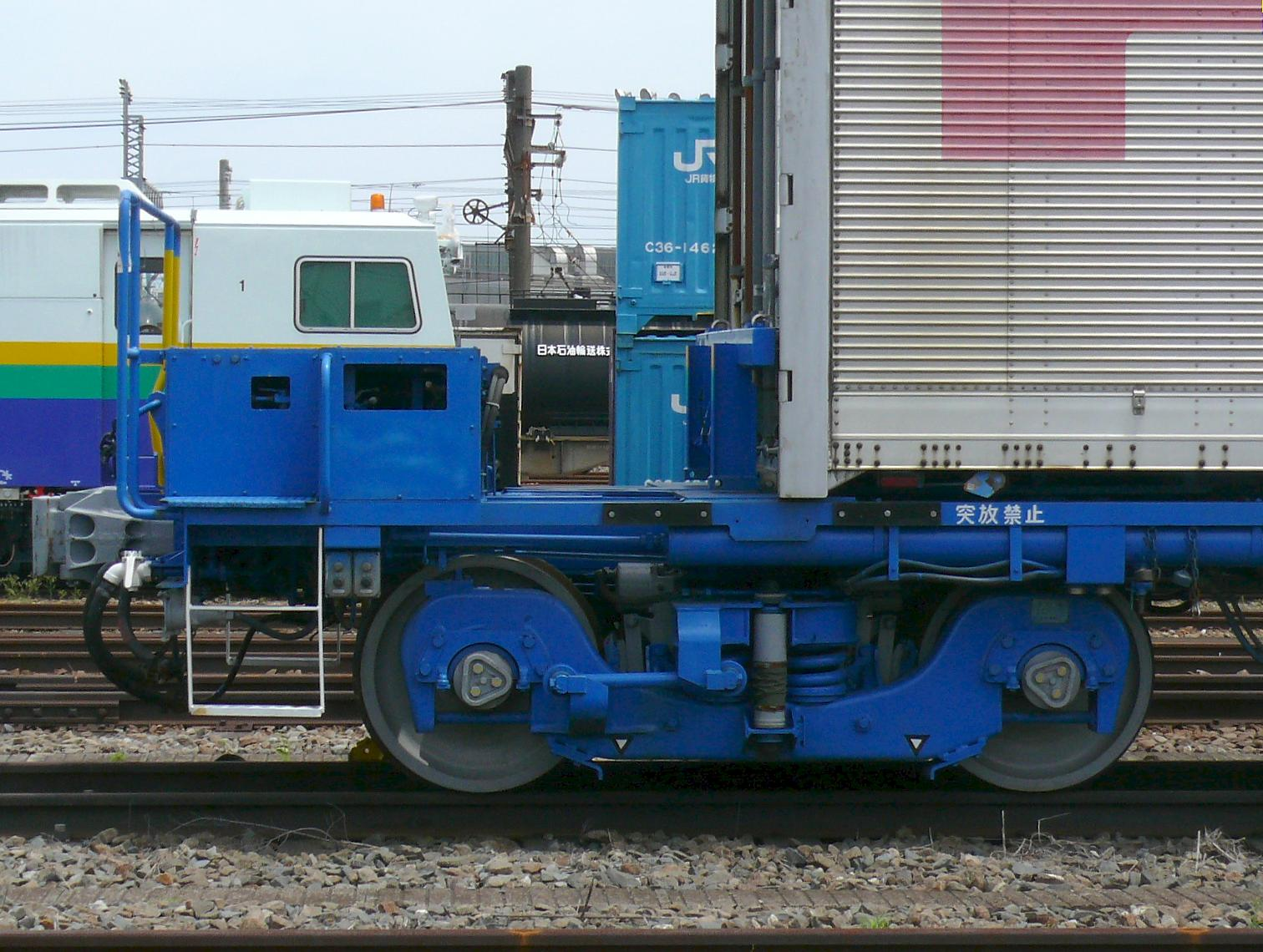 Japan Freight Railway Type Wa100 . This wagon is Dual Mode Trailer(DMT).